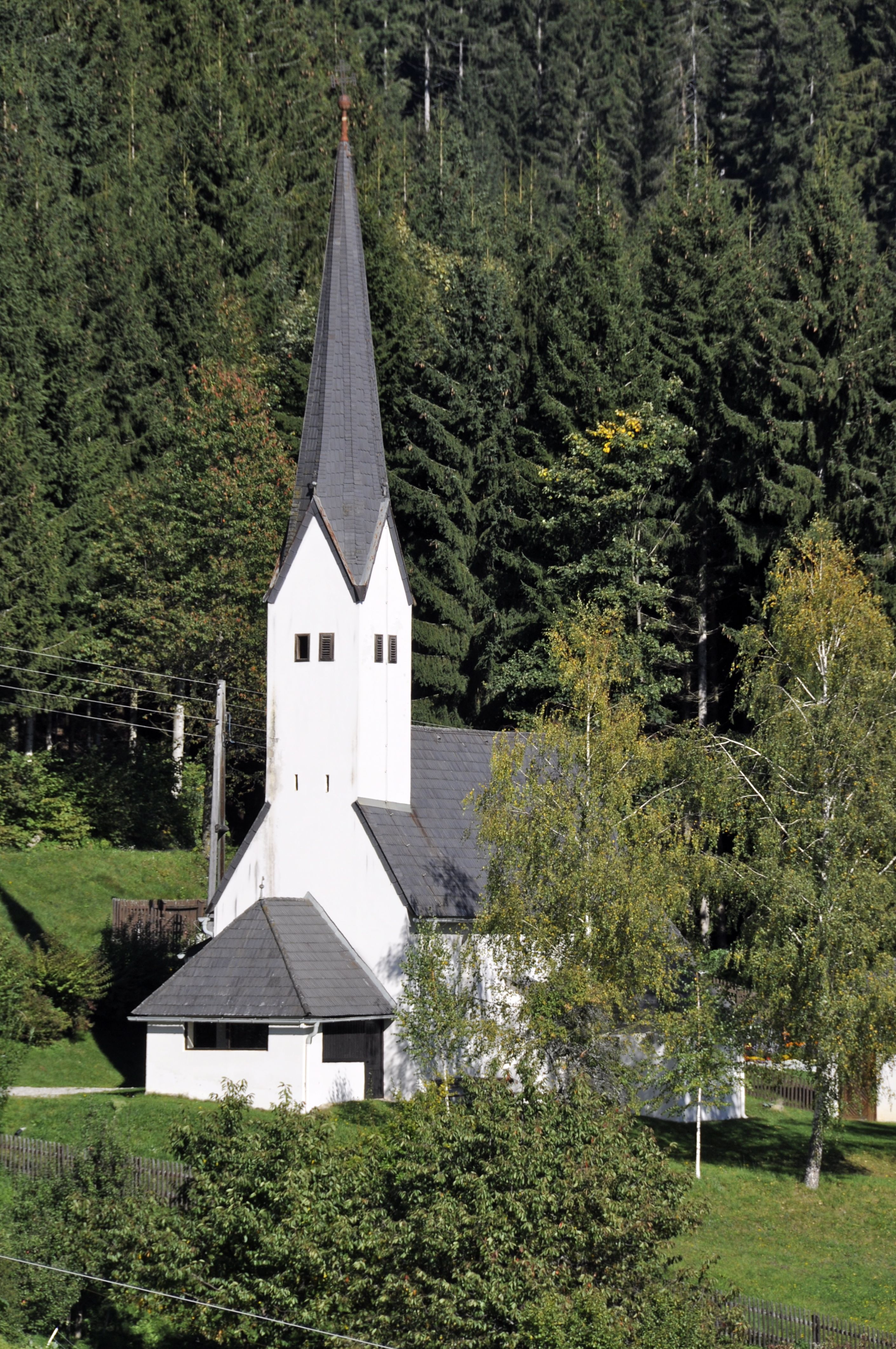 Subsidiary church Saint Lawrence at Lorenzenberg, municipality Lavamünd, district Wolfsberg, Carinthia / Austria / EU